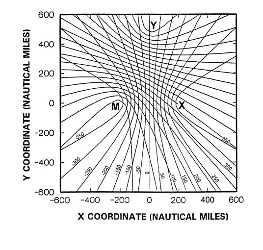 figure 1208b of APN2002